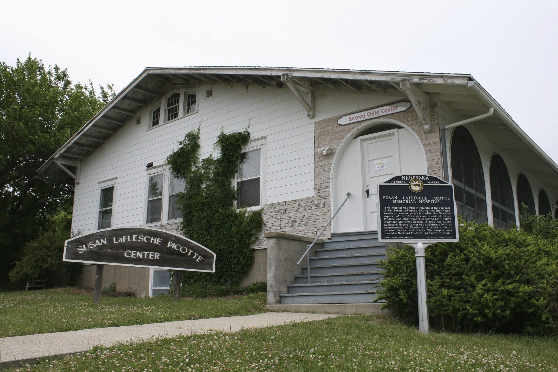 Front-left angle photograph of the Dr. Susan LaFlesche Picotte Memorial Hospital in Walthill, Nebraska, United States.